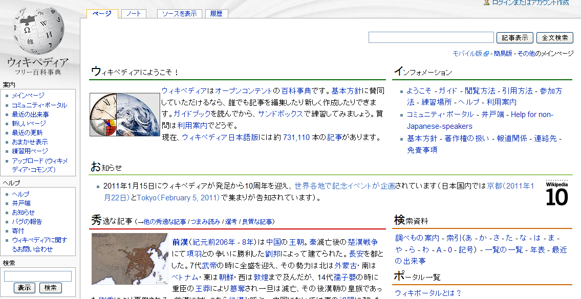 Monobook Skin at JAWP Main Page by IE.